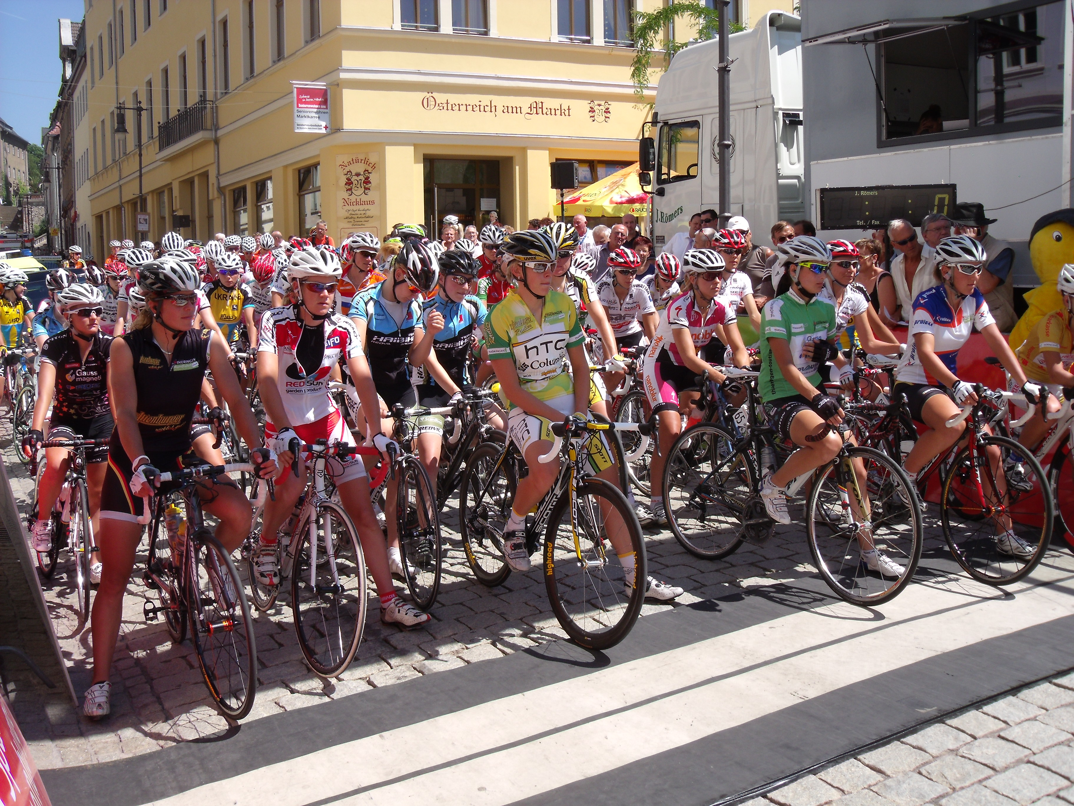 2nd stage "Around Gera" of the 2010 Internationale Thüringen-Rundfahrt der Frauen (International Women's Tour of Thuringia): Preparation of start (market square towards Kleine Kirchstraße)